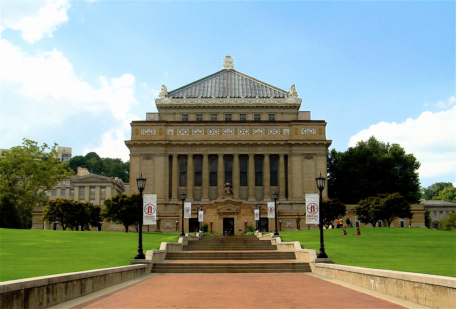 Willjaye, taken by me. Soldier and Sailor's Memorial, Oakland, Pittsburgh, PA. 2007.